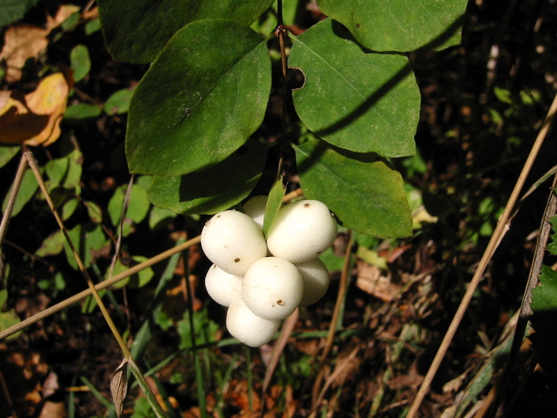 Symphoricarpos albus Description: Common snowberry, Symphoricarpos albus, foliage and berries Viewpoint location: Boardwalk about 150 m south of the Brown Barns, Nisqually National Wildlife Refuge, Washington Lat/Long: 47.0766°N, 122.7122°W (WGS84/NAD83) USGS Nisqually Quad [1] Viewpoint elevation: 10' View direction: Down Date and time: 2005.10.21 11:58:38 PDT Camera: Canon PowerShot S110 Photographer: Walter Siegmund ©2005 Walter Siegmund